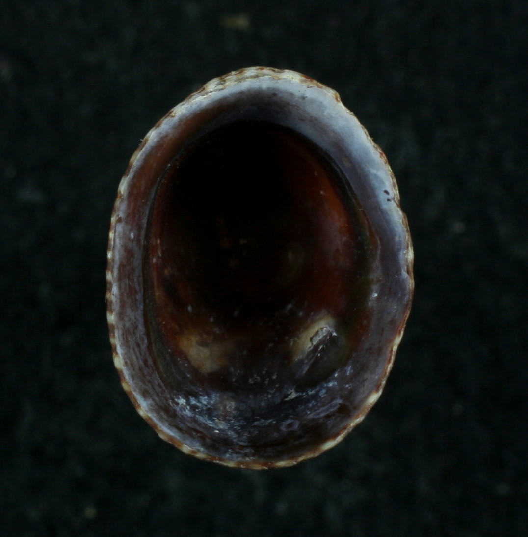 Siphonariidae: Siphonaria lessoni